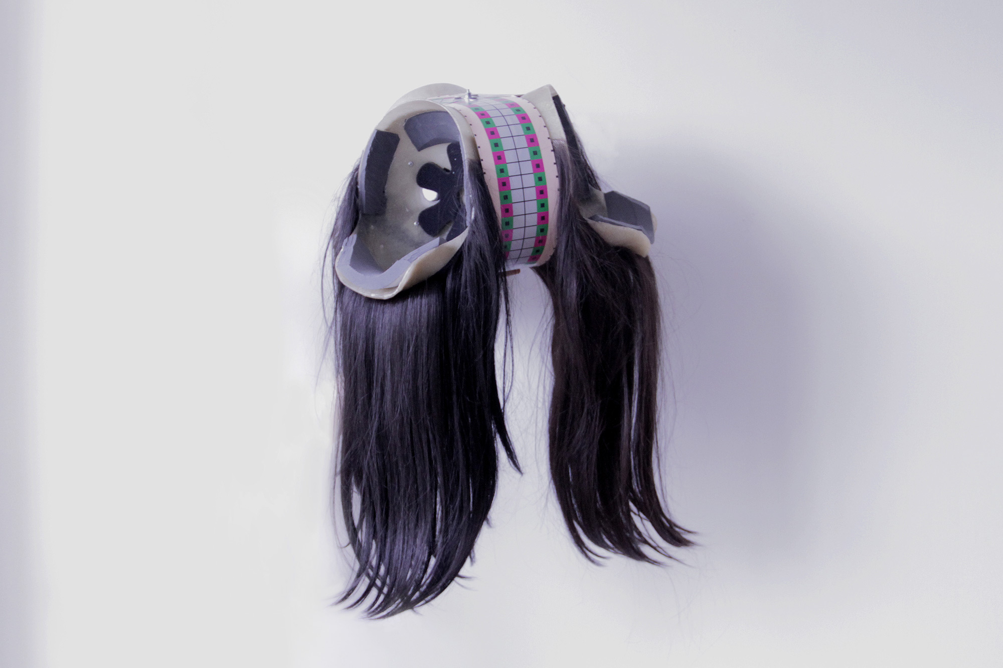 Mitch Stratten OCP TRI helmet